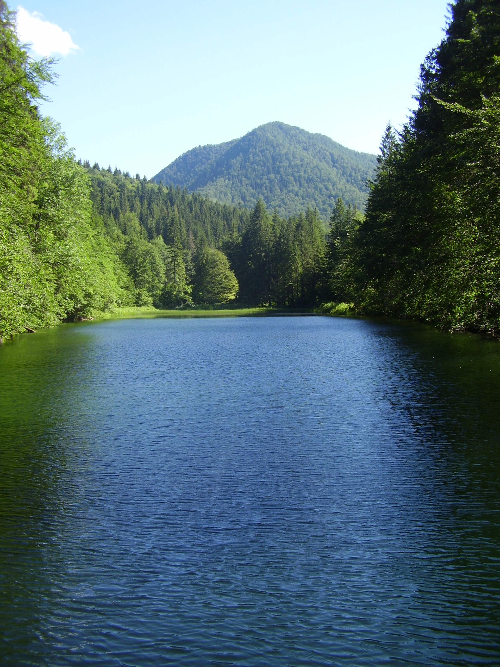 Look at reservoare Klauzy